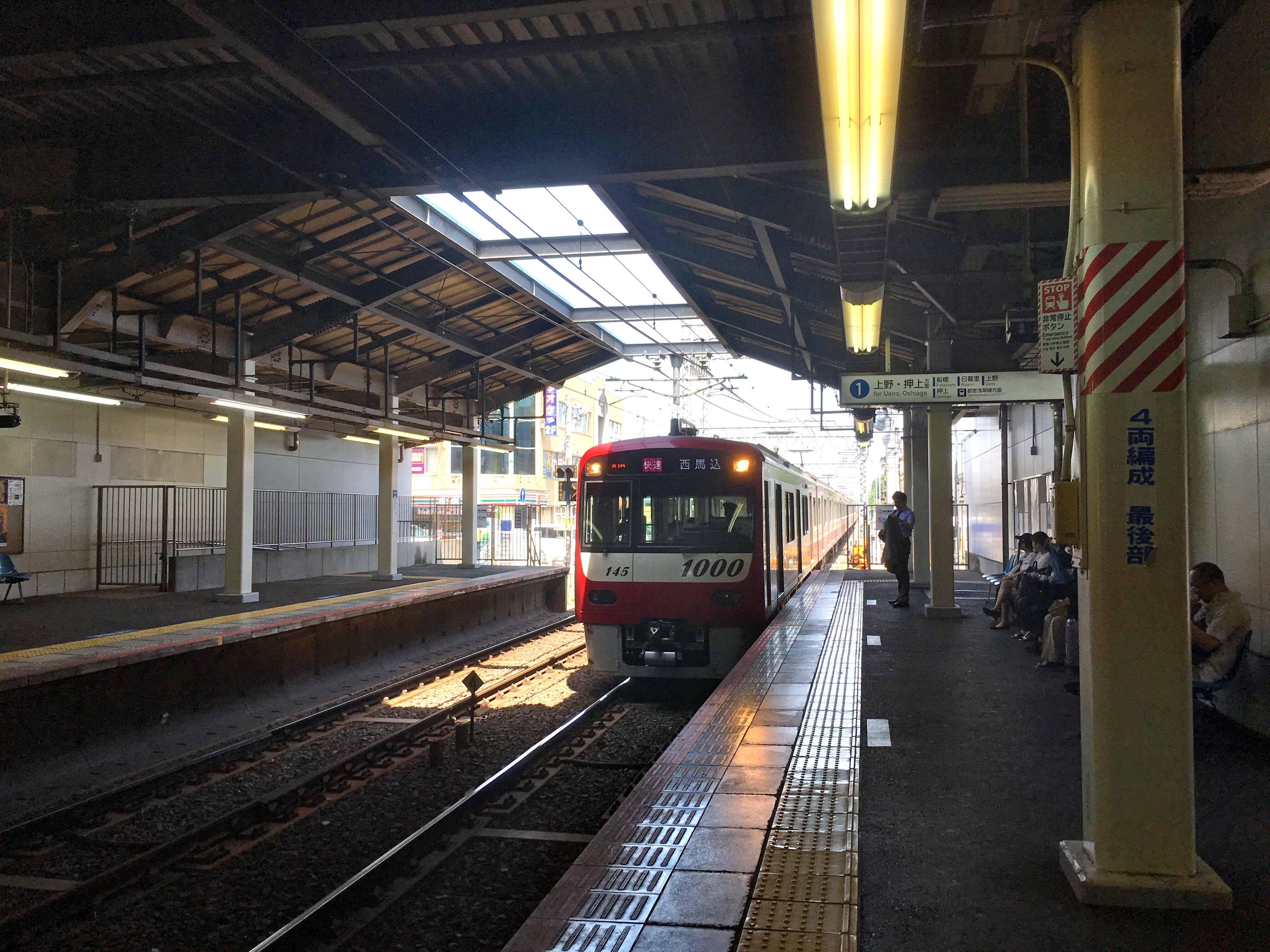 実籾駅のホームと電車 (Mimomi Station platforms and train)